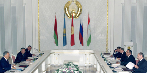 MINSK. The first meeting of the International Council of the Eurasian Economic Community.